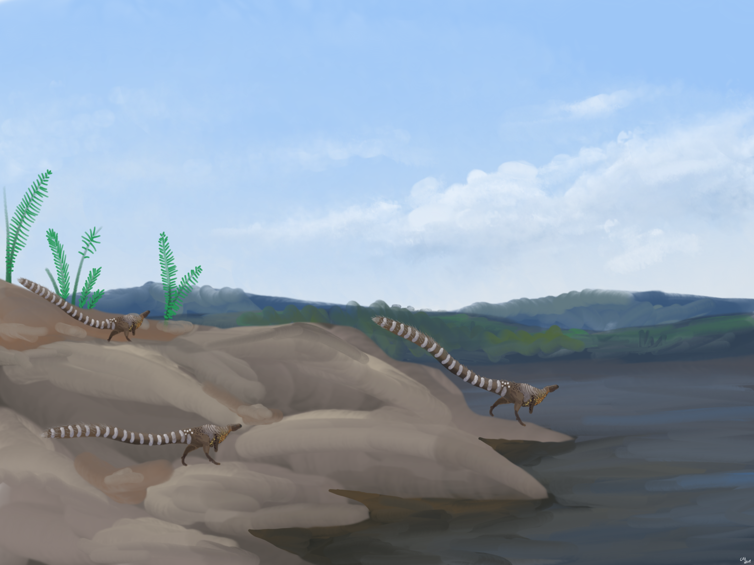 Many tail vertebrae have been found in the region, that may be assigned to Leaellynasaura in the future. As of now, it’s neither correct nor incorrect to give the animal a tail this long.